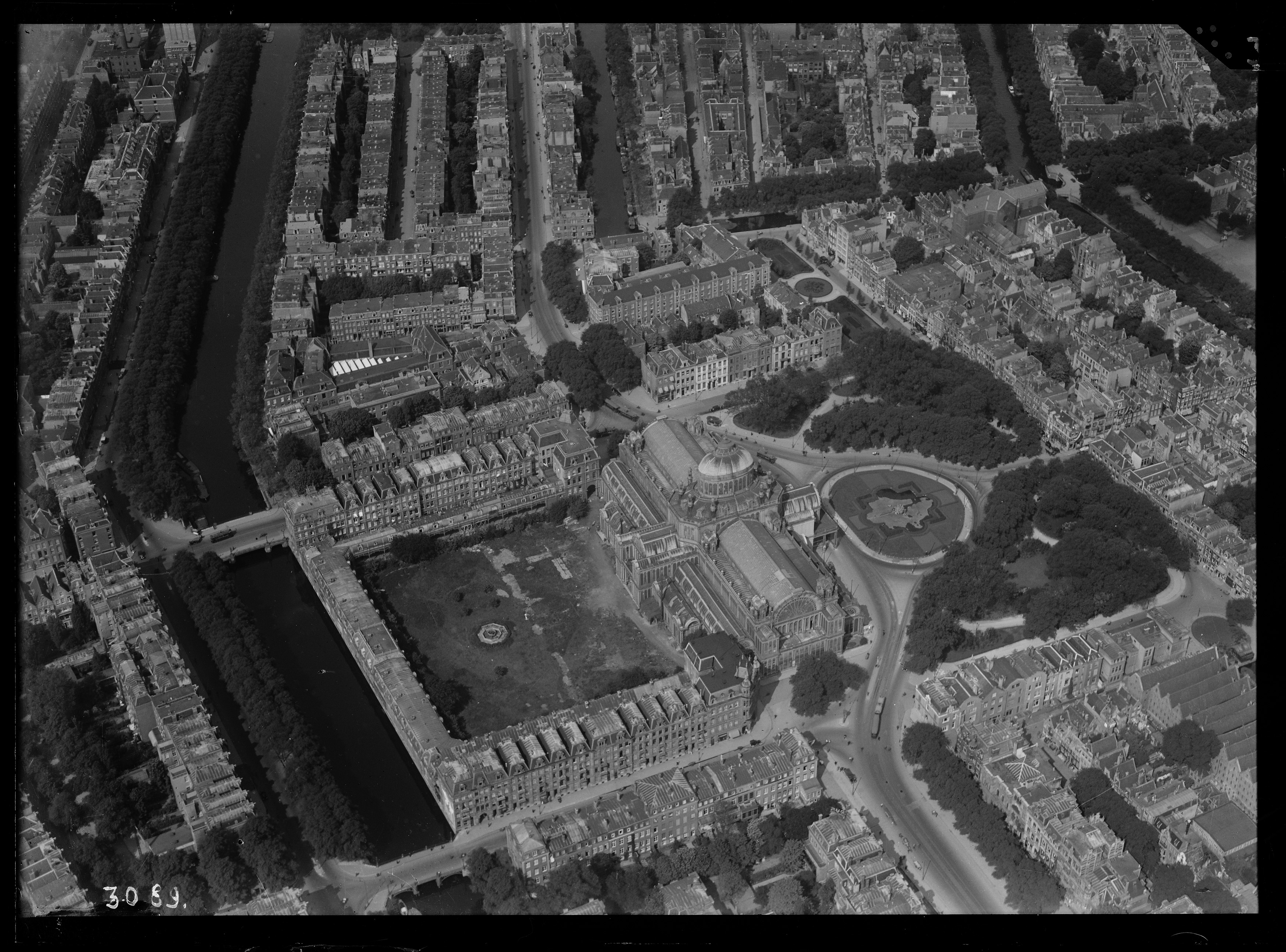 Aerial photograph of Amsterdam, The Netherlands. Paleis voor Volksvlijt before it burned down in 1929.